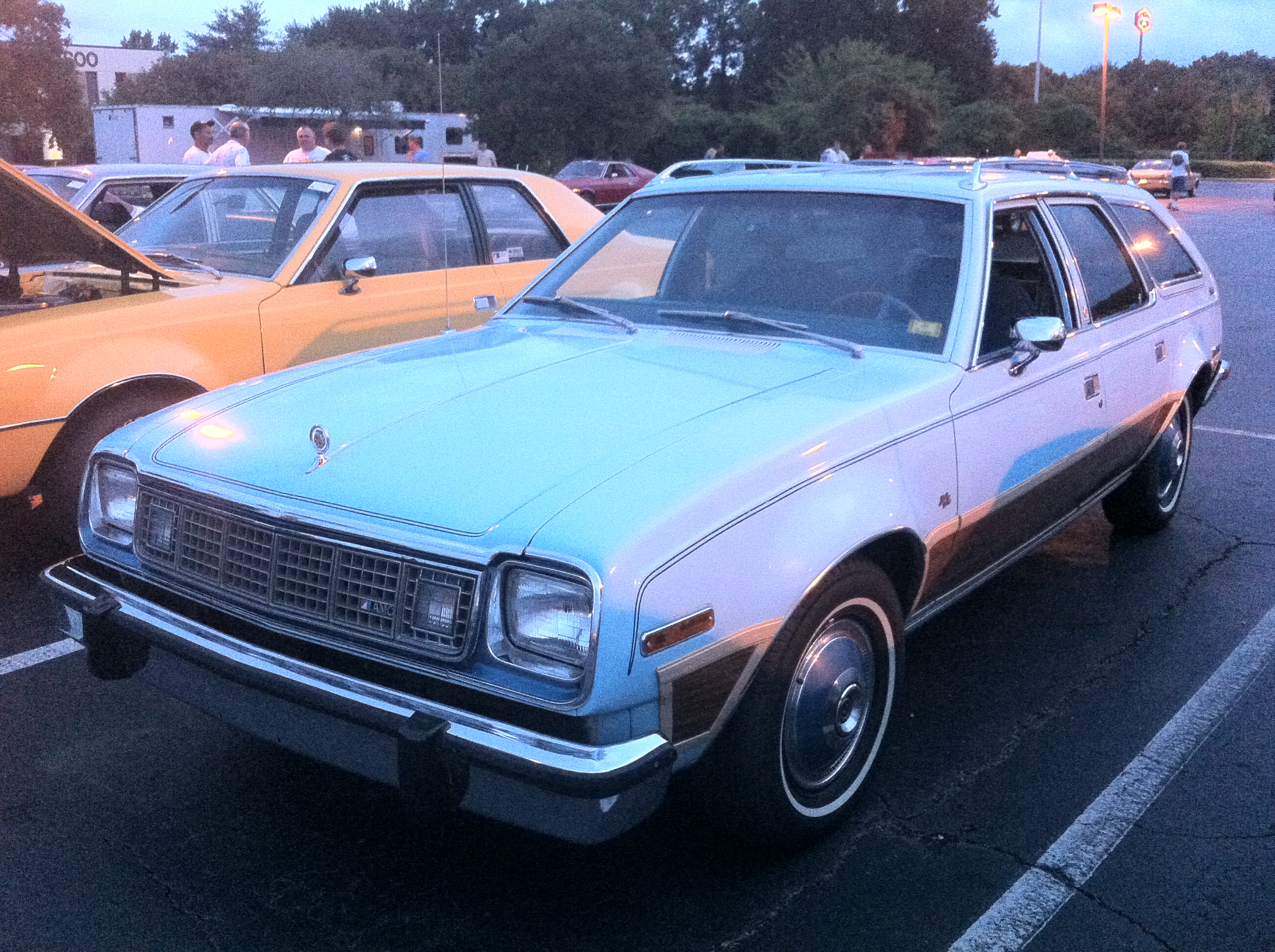 1978 AMC Concord DL station wagon. A compact-sized luxury automobile manufactured by American Motors Corporation (AMC). Finished in "Powder Blue" (paint code - 7D) with standard woodgrain exterior trim and with the standard blue velour upholstery. Photographed at the 2014 American Motors Owners (AMO) convention that was held in North Charleston, North Carolina, USA.